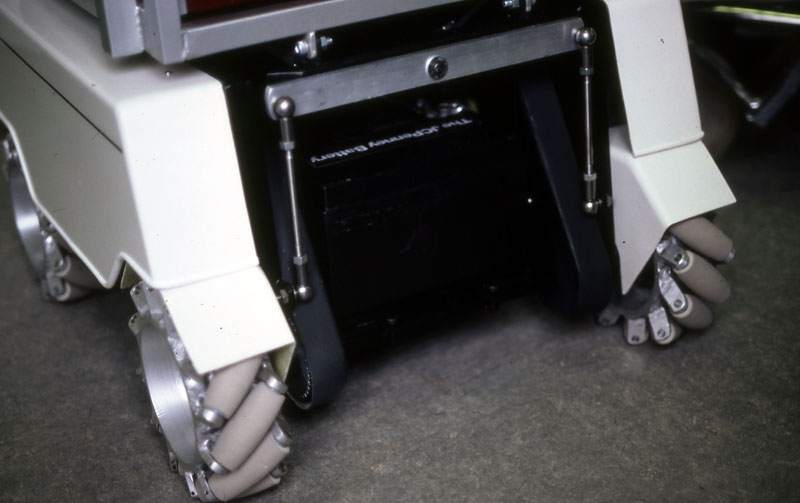 Photograph taken by Euchiasmus (me) on a conference exhibition stand which featured an electric trolley with Ilon wheels. This photo shows the back wheels of the trolley. The trolley had complete freedom of movement in any direction, and could also turn round on the spot.